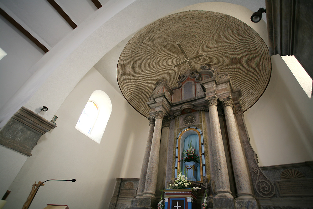 Church in Vidoši.